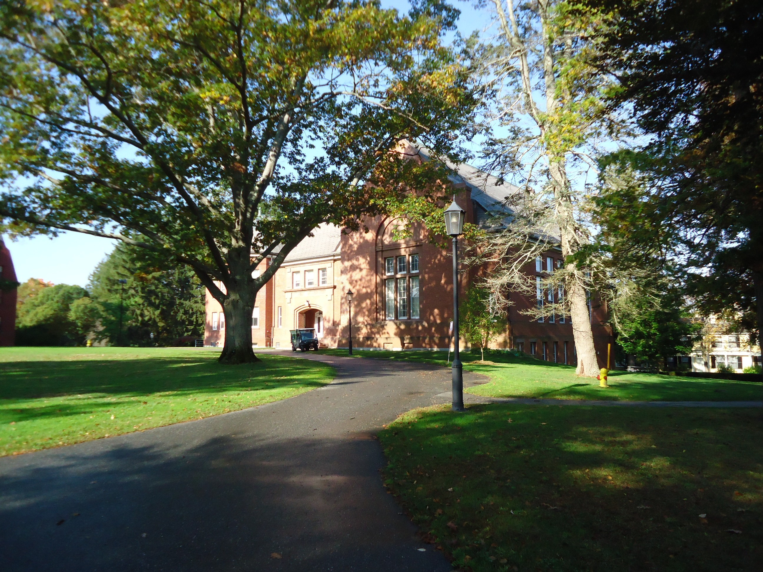 View of the circle and a building on the Abbot campus, at Phillips Academy in Andover, Massachusetts.